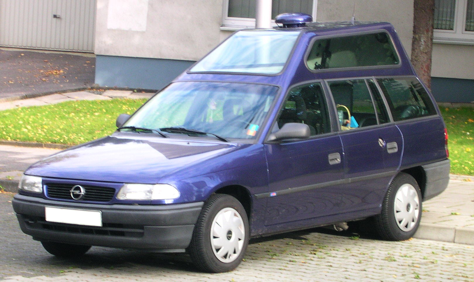 Opel Astra modified for wheel chairs